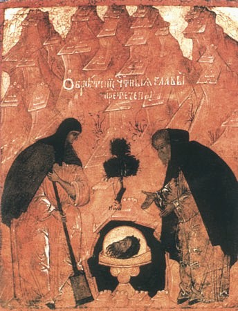 First finding of John the Baptist's head